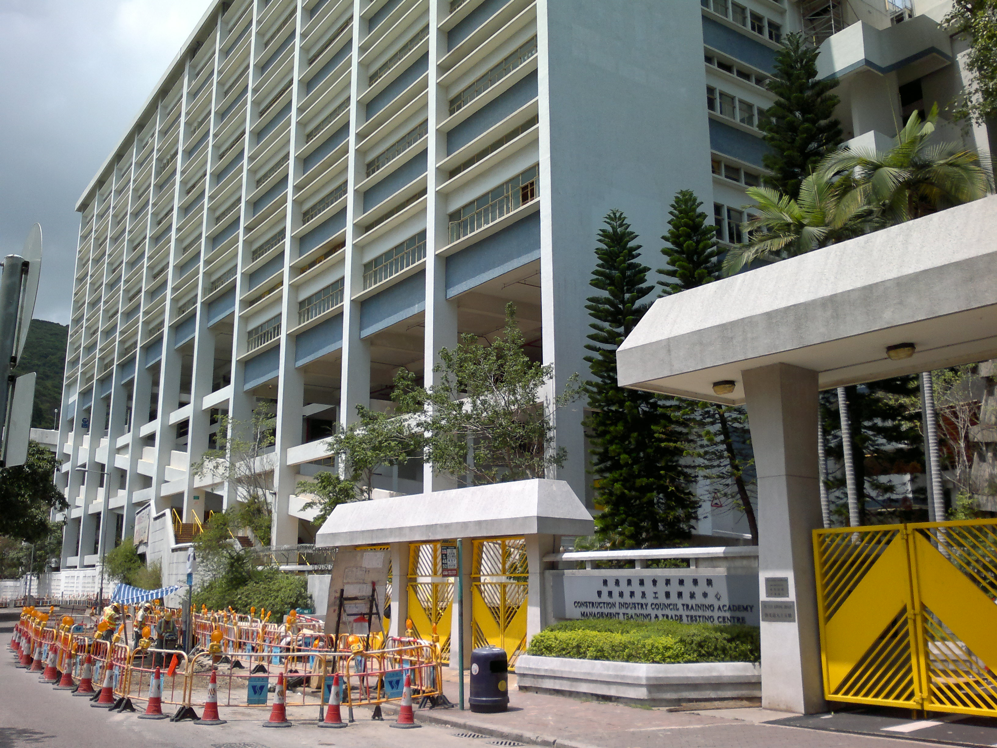 CICTA Management Training and Trade Testing Centre